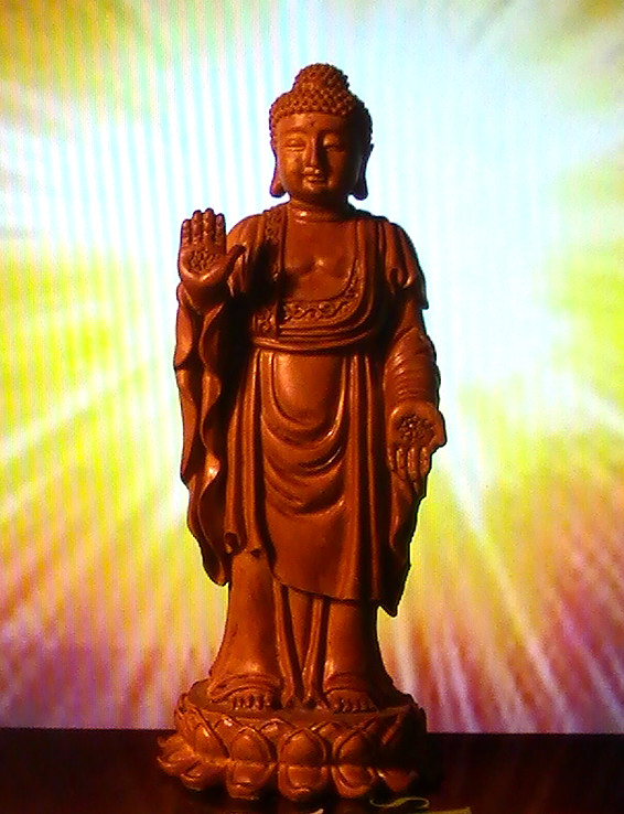 Buddha of limitless light